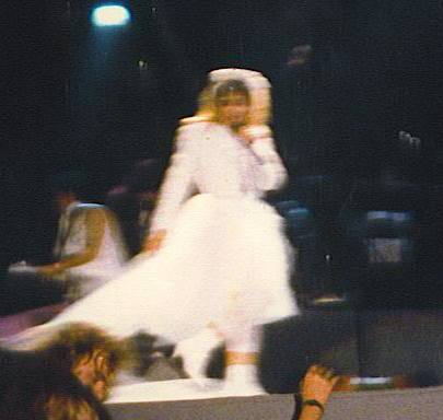 Picture taken by owner on 1985